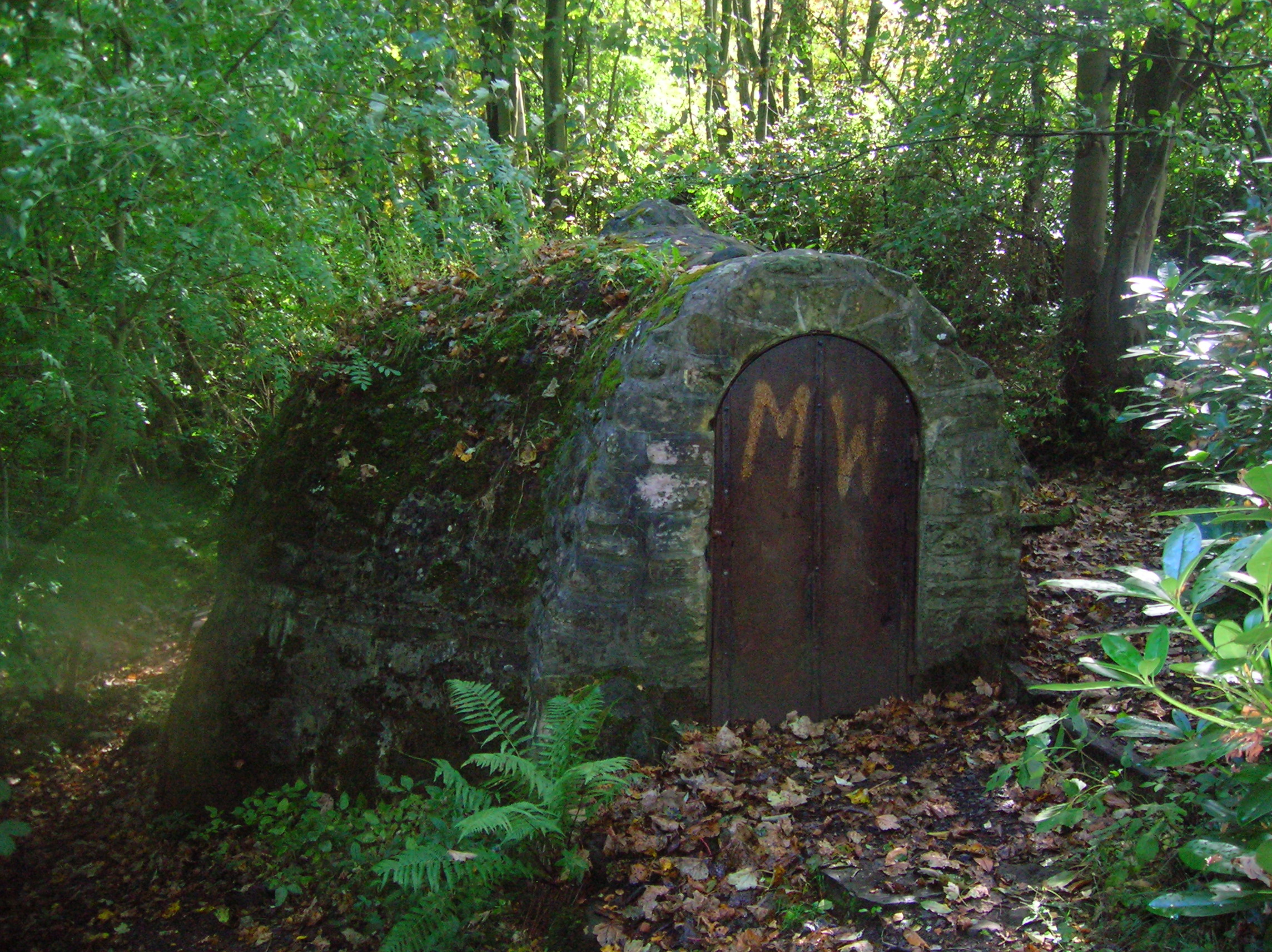 The ice house in the Old Woods at Eglinton Country Park, Kilwinning, North Ayrshire, Scotland.